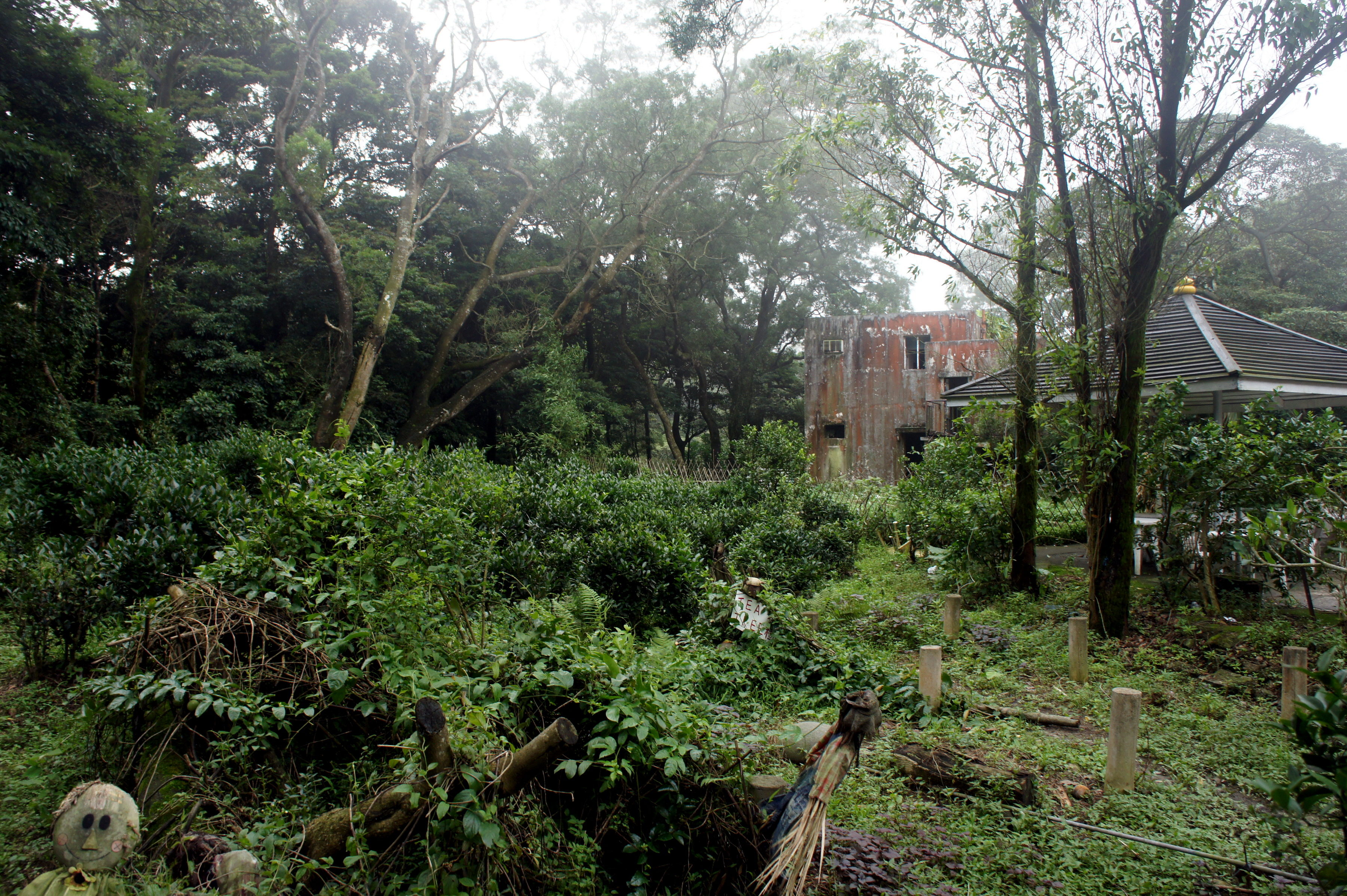 Ngong Ping Tea Garden, Lantau Island, Hong Kong.